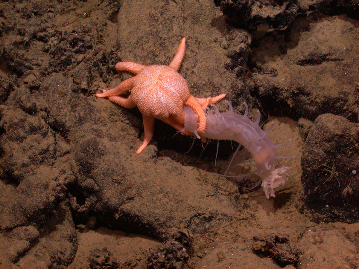 Deep-sea sea star (Solaster sp.) feeding on sea cucumber (Pannychia moseleyi). Davidson Seamount, 2006. Vehicle = Tiburon Tiburon Dive# = 945 Lat= 35.82556534 Lon= -122.60898590 Depth= 2581.9 m Temp= 1.796 C Sal= 34.618 PSU Oxy= 2.17 ml/l Xmiss= 85.7% Source= digitalImages/Tiburon/2006/tibr945/DSCN7231.JPG Epoch seconds= 1138645339 Beta timecode= 02:16:24:02